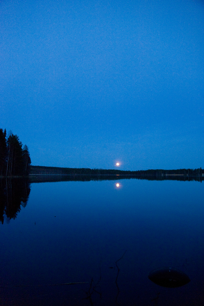 Moon rising over Lake Sääksjärvi in Jyväskylä and Muurame, Finland